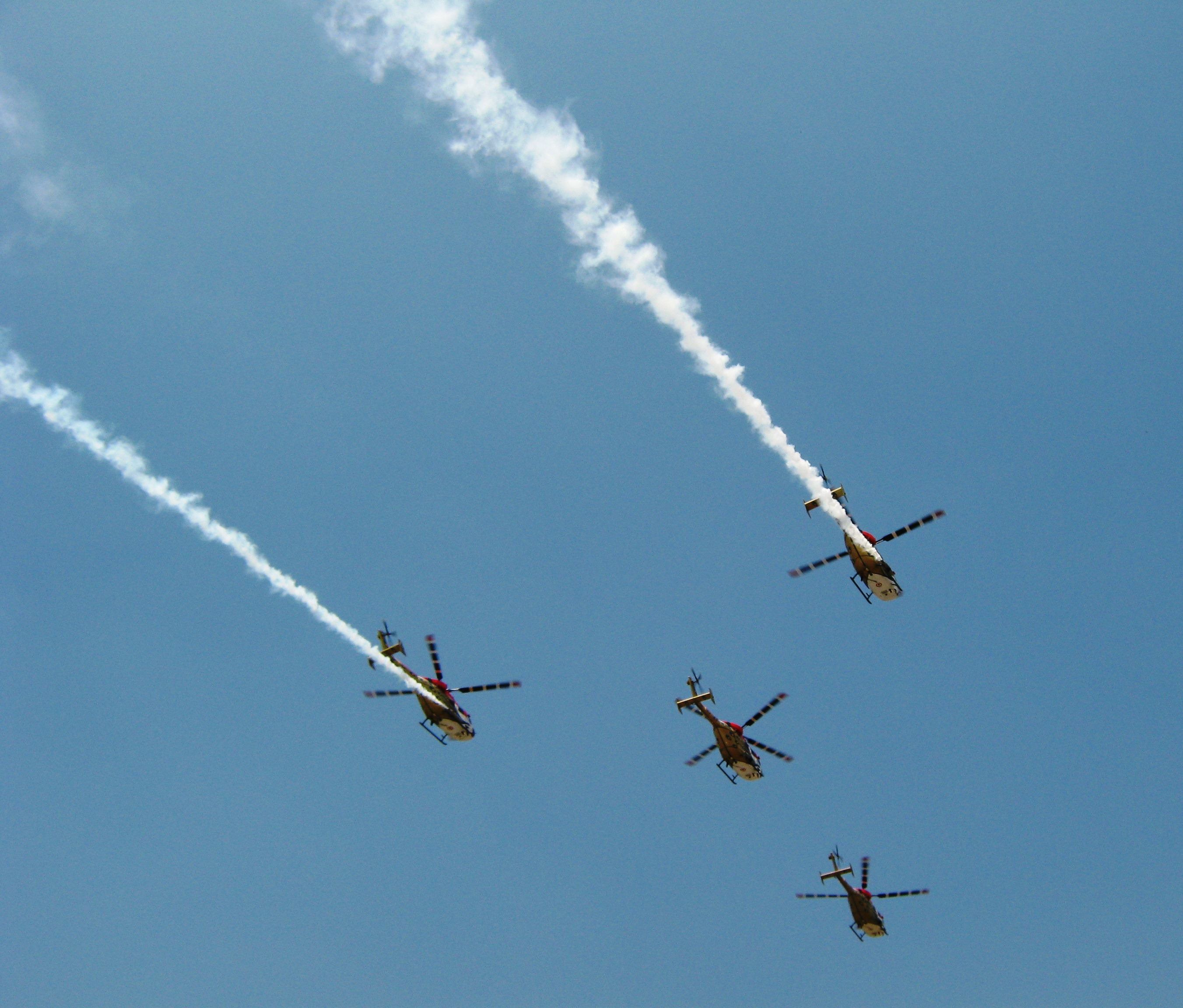 Sarang display team of IAF at Aero India '13